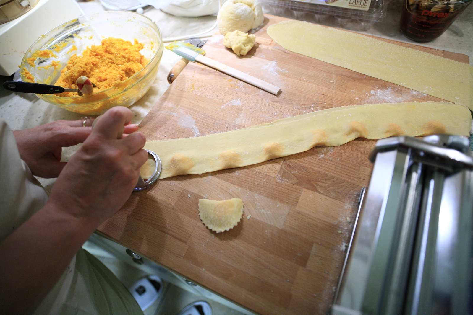 Happy New Year to all! All made from scratch, including the cheese, believe it or not. The sauce (not pictured here) is made from Porcini mushrooms, hand-carried from Italy. The flour is also hand-carried from Italy, although the pumpkin, salt, water, etc, are all local. I don't yet know how it tastes, it will be interesting to see how much the other ingredients affect it. (All assuming we have a good memory of how it tasted back in Italy!)